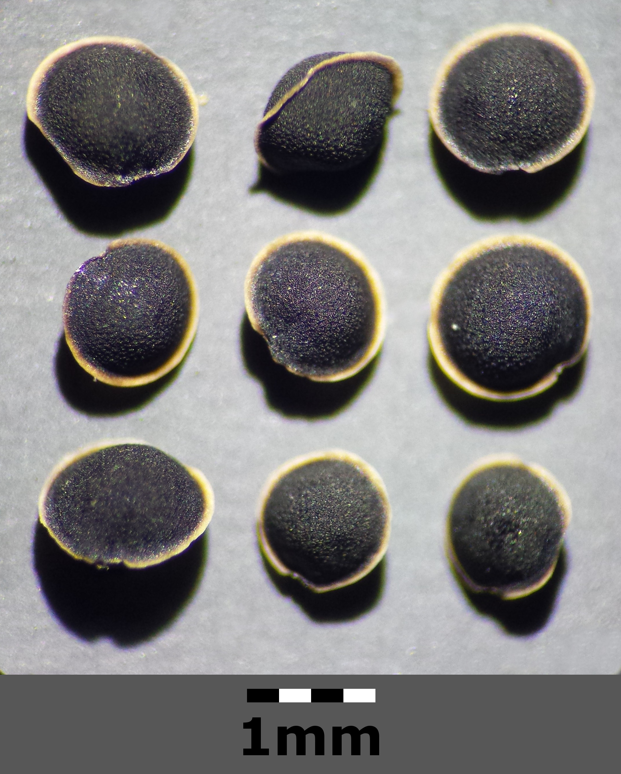 Seeds Taxonym: Spergula arvensis subsp. arvensis ss Fischer et al. EfÖLS 2008 ISBN 978-3-85474-187-9 Location: near Komau, district Freistadt, Upper Austria - ca. 850 m a.s.l. Habitat: wet field